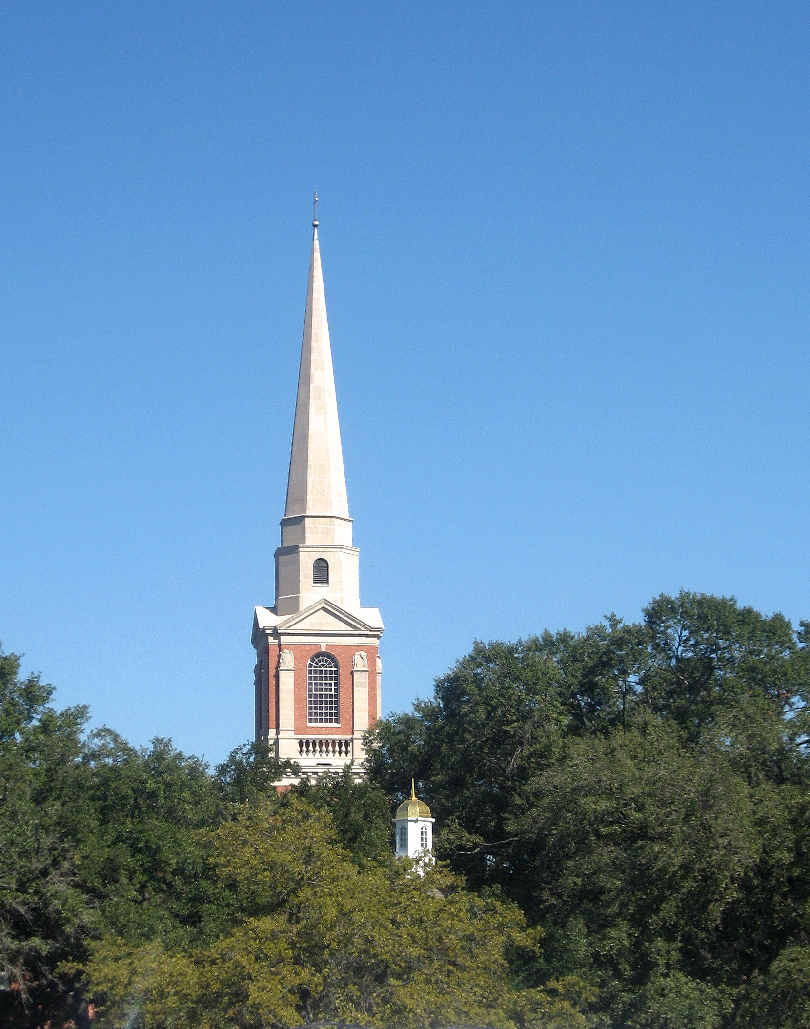 Organized March 31 (Easter Sunday), 1839, in Senate Chamber, Capitol of Republic of Texas, Main at Texas, by the Rev. Wm. Youel Allen, missionary from the United States, and eleven members. James Burke was elected ruling elder. Services of worship and a Sunday School (begun on May 13, 1838) continued in Capitol while church building was being erected on site (NW corner, Main and Capitol) given by the Allen family which had founded Houston. This church was the first house of worship completed in Houston. Dedicated on Feb. 13, 1842, it was used for meeting of other denominations and groups. Here the House of Representatives met in summer of 1842, and President Sam Houston addressed a joint session of Congress. Thus the congregation repaid the Republic's hospitality of 1838-1839. Original church burned 1862; a brick structure was built in 1867, and served until the erection of a large stone edifice, Main at McKinney, 1894. Fire destroyed part of that building in 1932. The present church was occupied in 1948 and dedicated Sept. 12, 1954. Through the years, this church body has furnished many outstanding leaders to the businesses and professions of state and nation.